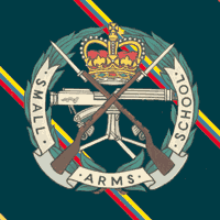 Small Arms School Corps